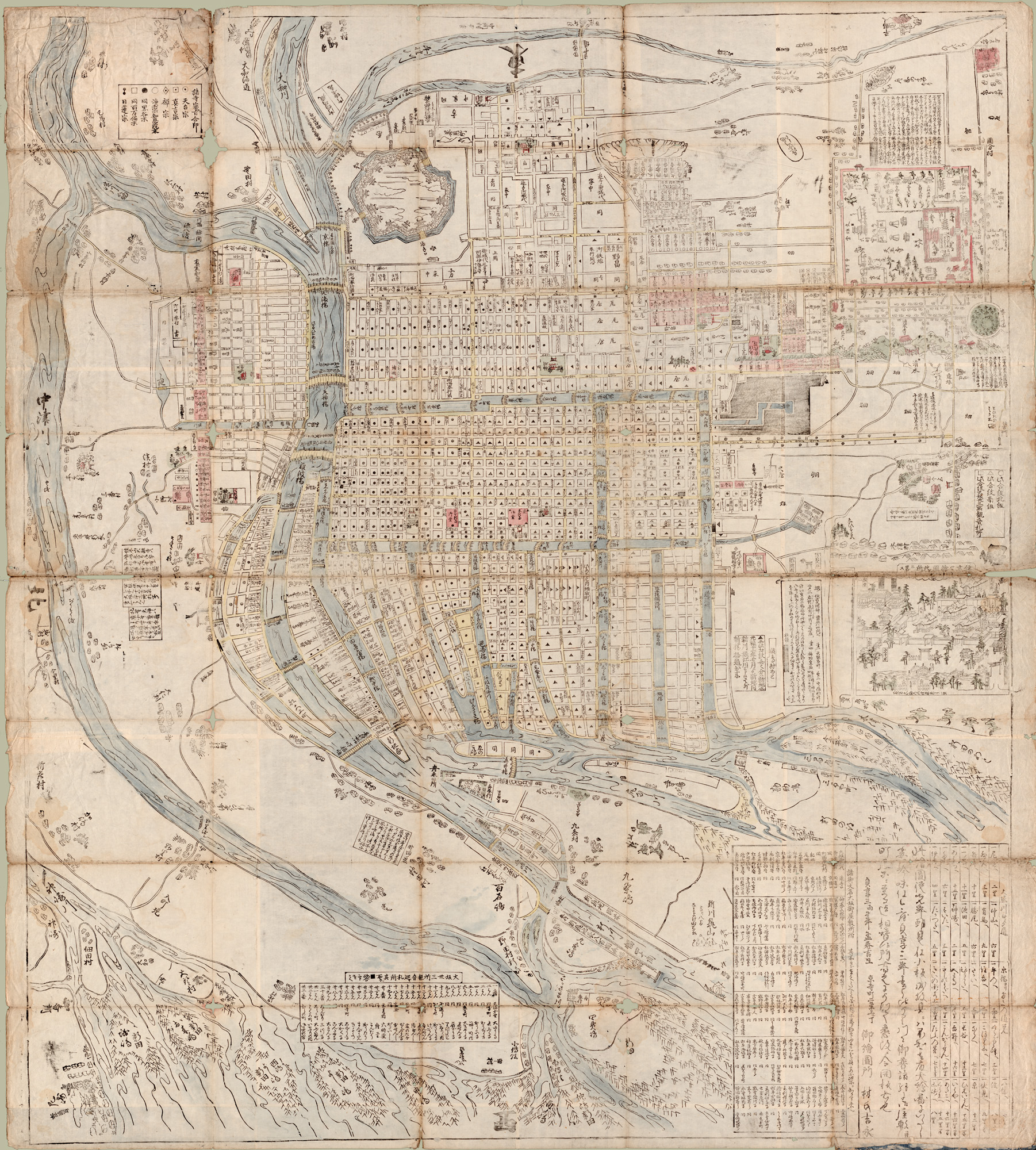 Map of Osaka by Hayashi Yoshinaga in 1686. Title from cover: "Shinsen zōho Ōsaka ōezu. Newly compiled and enlarged plan of Ōsaka". Size: 1 plan : woodcut, manuscript col, ; 133.8 x 119.0 cm